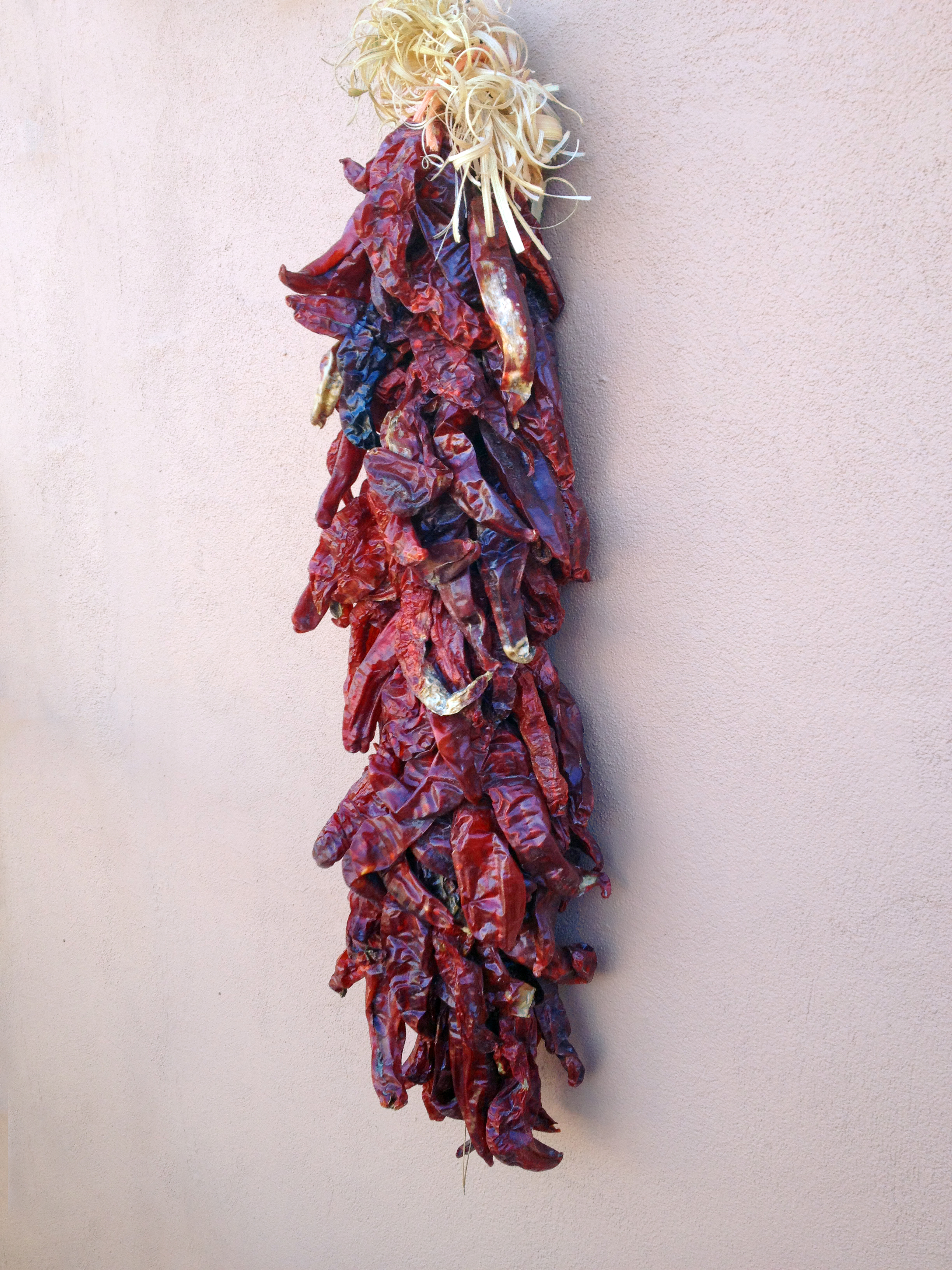 Red chili peppers (Capsicum annuum) bundled and hanging to dry. Mesilla, New Mexico, 2015.